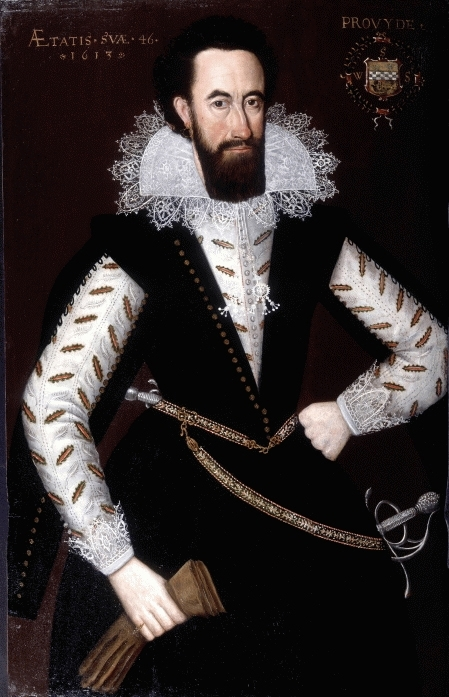 Sir William Stewart 11th Laird of Grandtully Castle held the offices of Gentleman of the Bedchamber to King James VI and Sheriff of Perth. According to tradition to be ‘whipping boy’ to the young King, whereby he would be punished for his royal master’s transgressions. Sir William held the latter office in 1626, and would appear not have followed the King southwards in 1603, which would suggest that de Colone painted this portrait in Scotland before coming to London after his continued education in the Netherlands. Sir William is known in family tradition as ‘William the Ruthless’, and it is to his cupidity and lack of scruple that the Steuart-Fothringham family owed their prosperity. To his seat of Grandtully Castle – until recently in the ownership of Henry Steuart-Fothringham- he added the nearby Murthly Castle by devious means. It is said that he threatened to reveal – or, in family tradition, simply to pretend- that the owner Abercrombie of Murthly was sheltering Jesuits unless he agreed to sell Murthly Castle for an absurdly low price. Murthly Castle where this portrait hung until the nineteenth century in the ownership of his descendant Thomas Steuart-Fothringham.